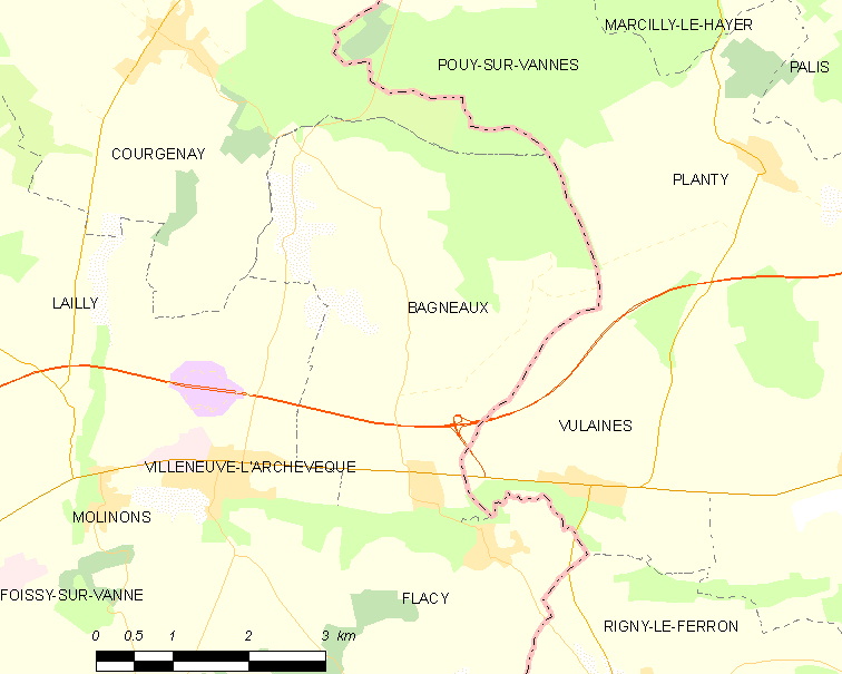 Map of French municipality Bagneaux